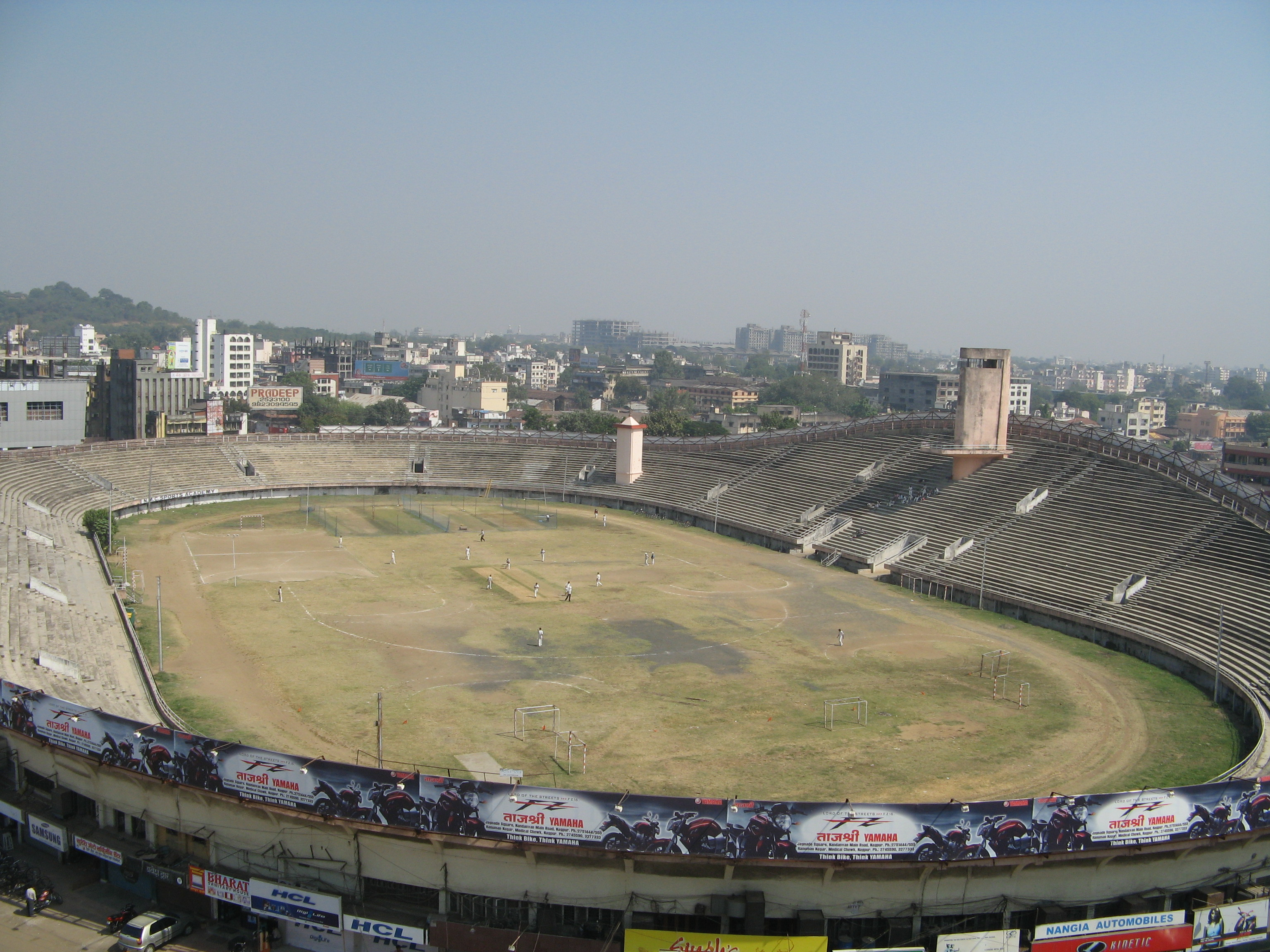 Nagpur's Yashwant Stadium. I took this photo myself from the roof top of commercial complex opposite this stadium.